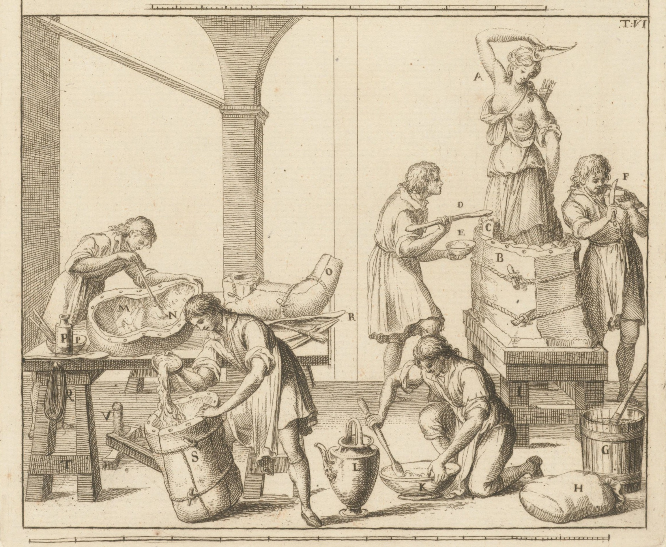 Illustration from Istruzione elementare per gli studiosi della scultura, Firenze: 1802, by Francesco Carradori (1747-1824). Typ 825.02.2606, Houghton Library, Harvard University